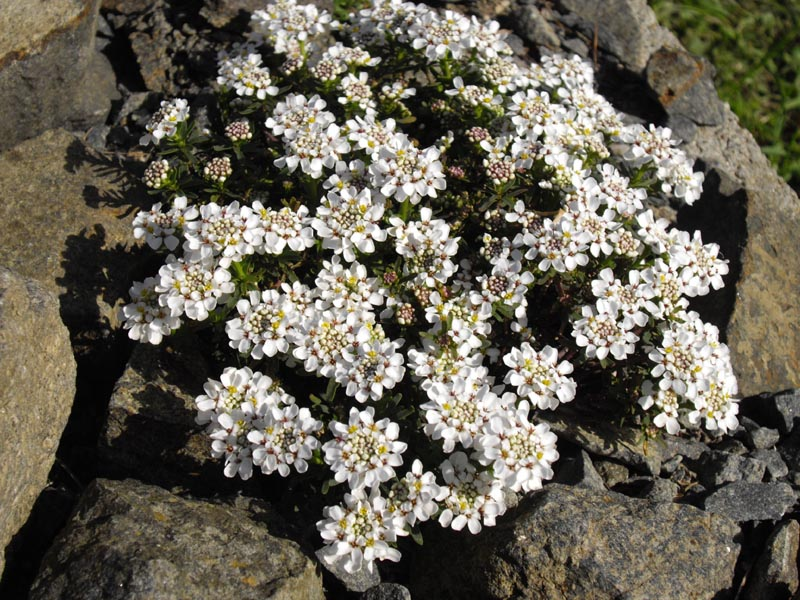 Iberis sempervirens 'Pygmaea'